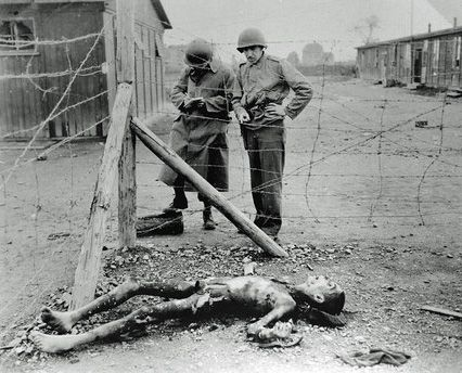 Two American soldiers conducting an investigation of Leipzig-Thekla, a sub-camp of Buchenwald, make notes while examining a corpse lying near a barbed wire fence.